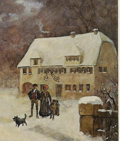 Country inn "Waldhörnle" close to Tübingen/Germany, traditional fencing venue of Tübingen students